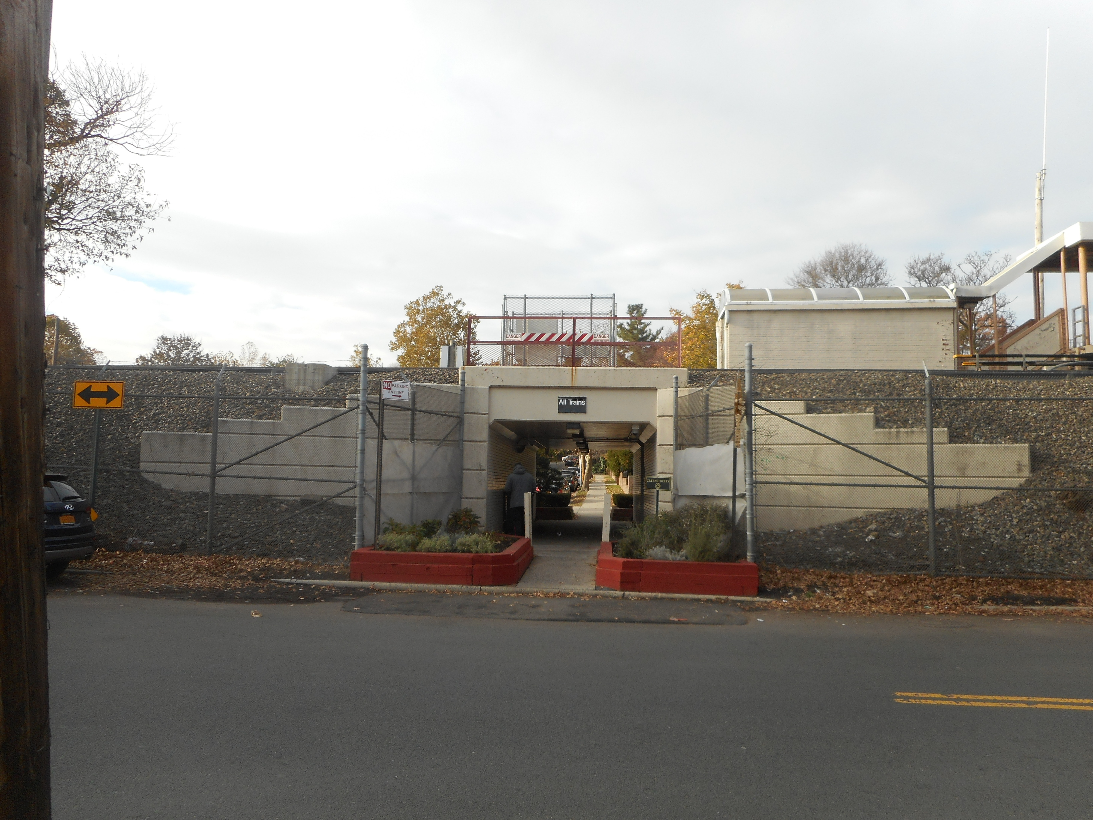 Broader shot of the pedestrian tunnel beneath the west end of the Bay Terrace Staten Island Railway station in the Bay Terrace section of Staten Island, New York City. The tunnel runs from the intersection with South Railroad Avenue and Bay Terrace (the street, not the neighborhood), where this picture was taken to a dead end section of Bay Terrace (Avenue) on the northwest side of the tracks, and has a staircase to the west end of the platform.